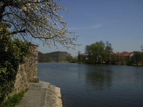 River Naab, Regensburg (district), Bavaria, Germany